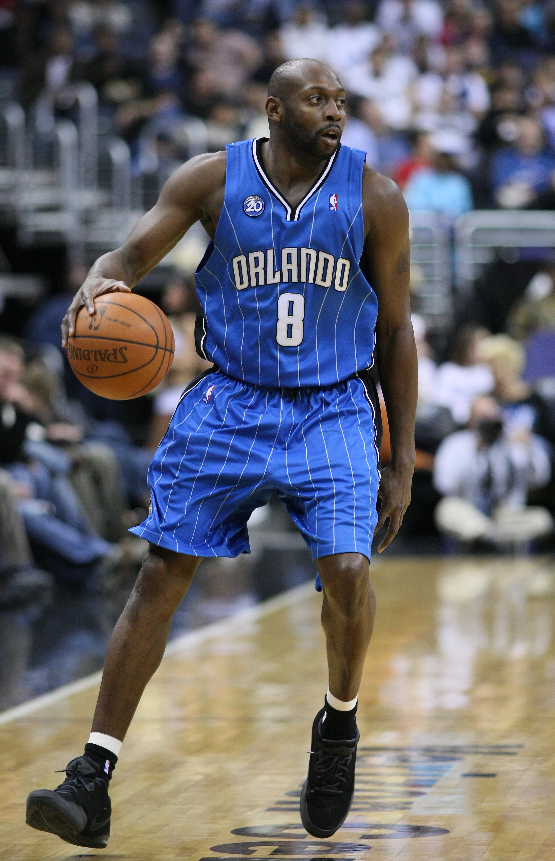 Anthony Johnson at the Washington Wizards v/s Orlando Magic game on 11/27/08